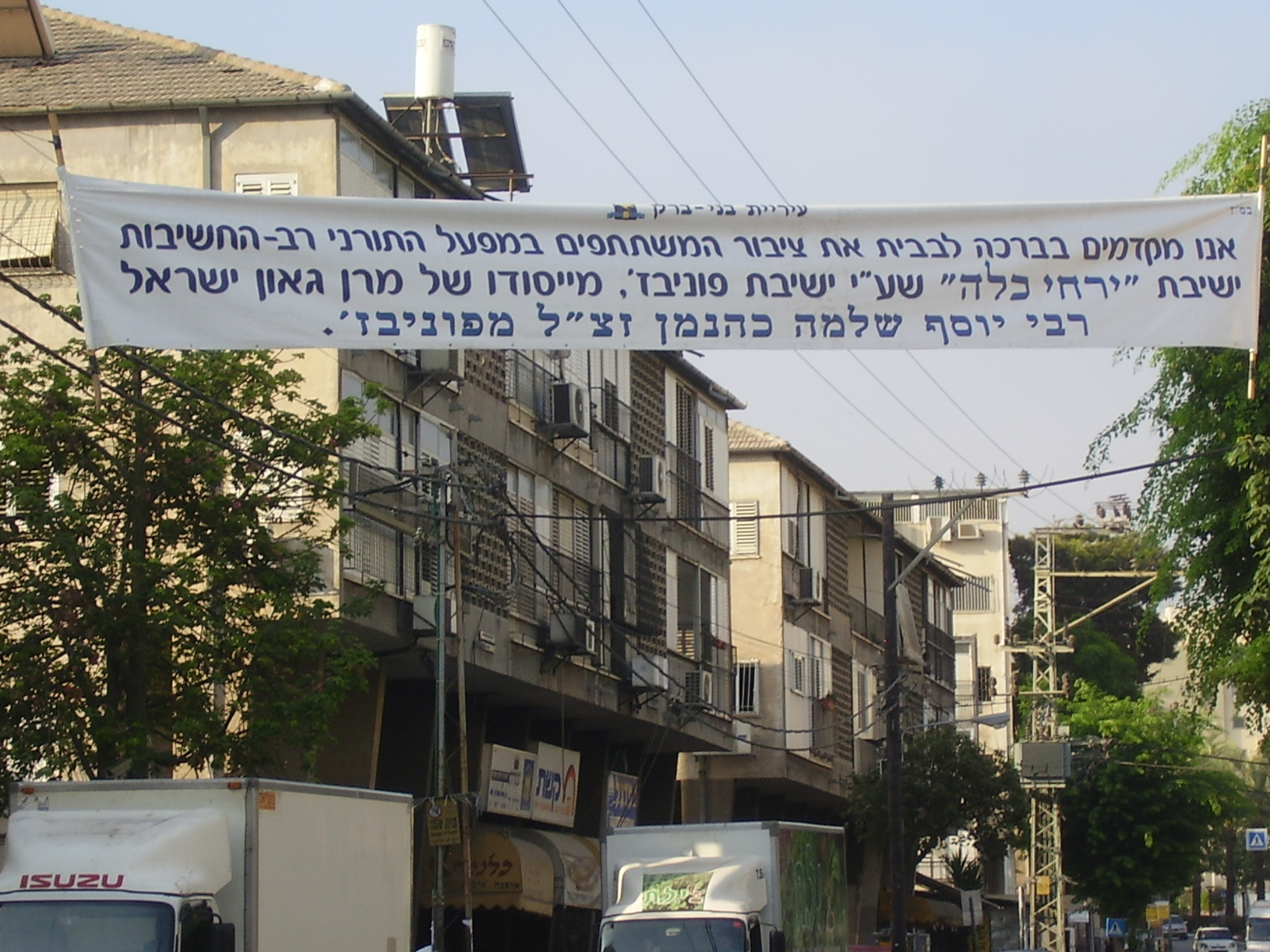 banner in bnei brak, israel שלט "ירחי כלה" בבני ברק